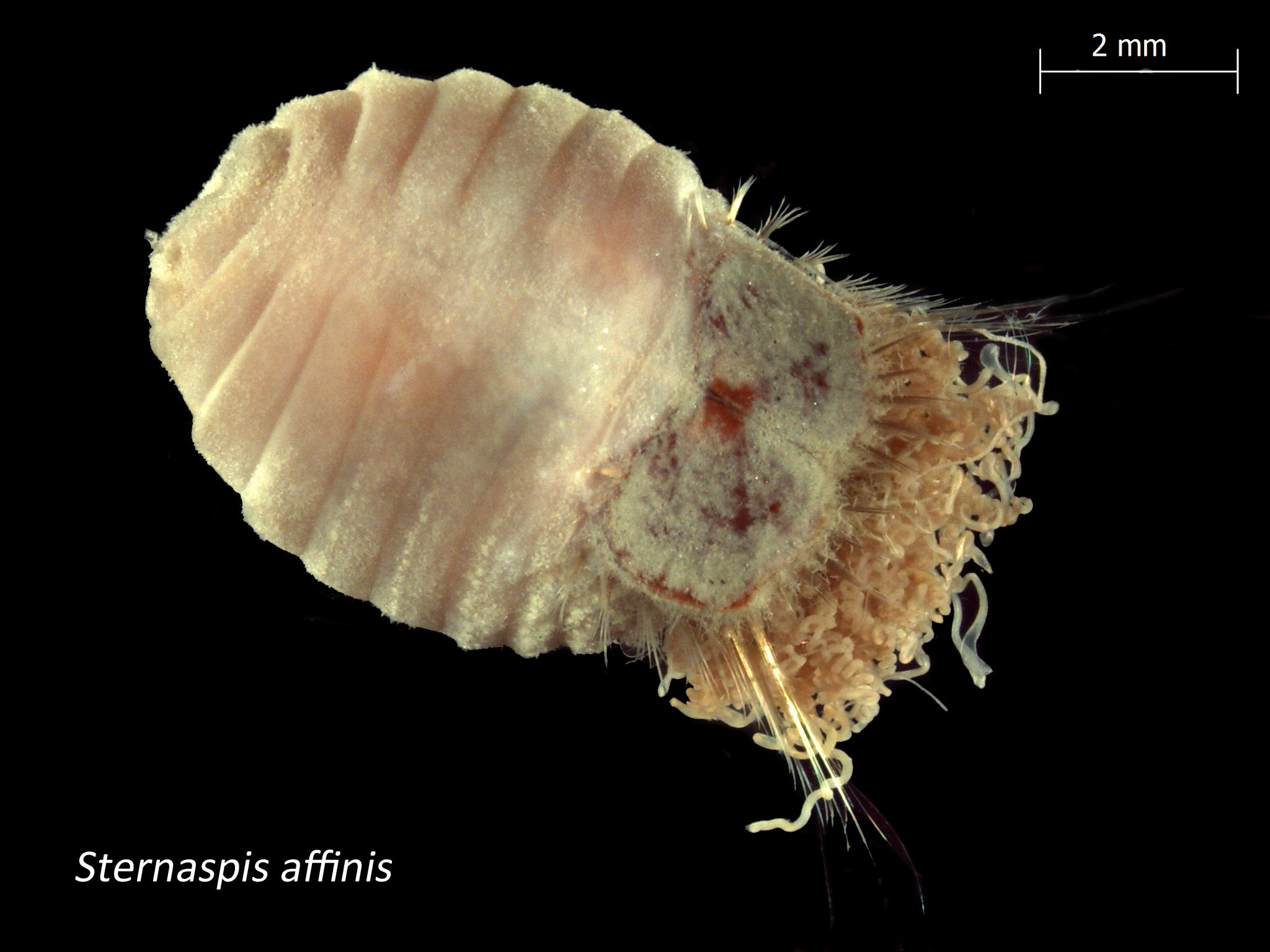 Collected from Puget Sound sediments and photographed by the Washington State Department of Ecology’s Marine Sediment Monitoring Team. For more information about this team’s work visit